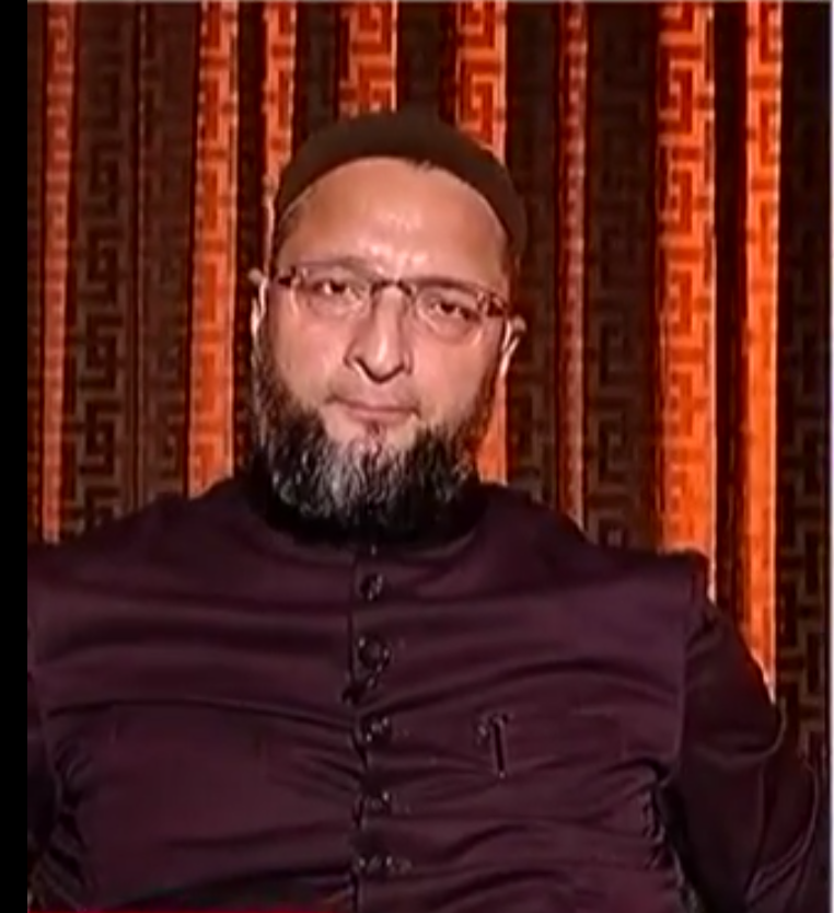 Asaduddin Owaisi